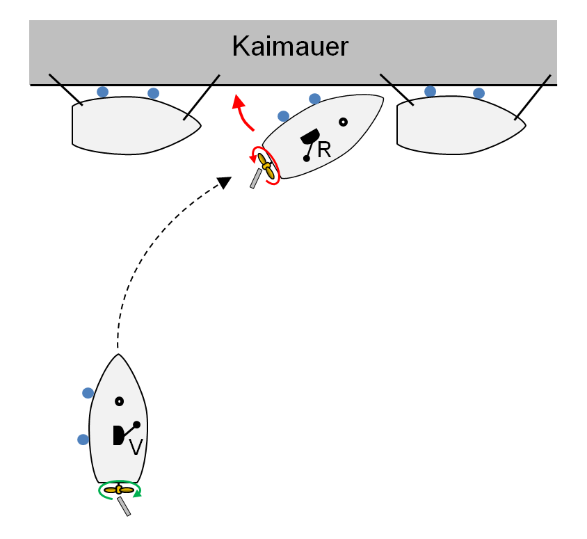 Mooring alongside a quay wall